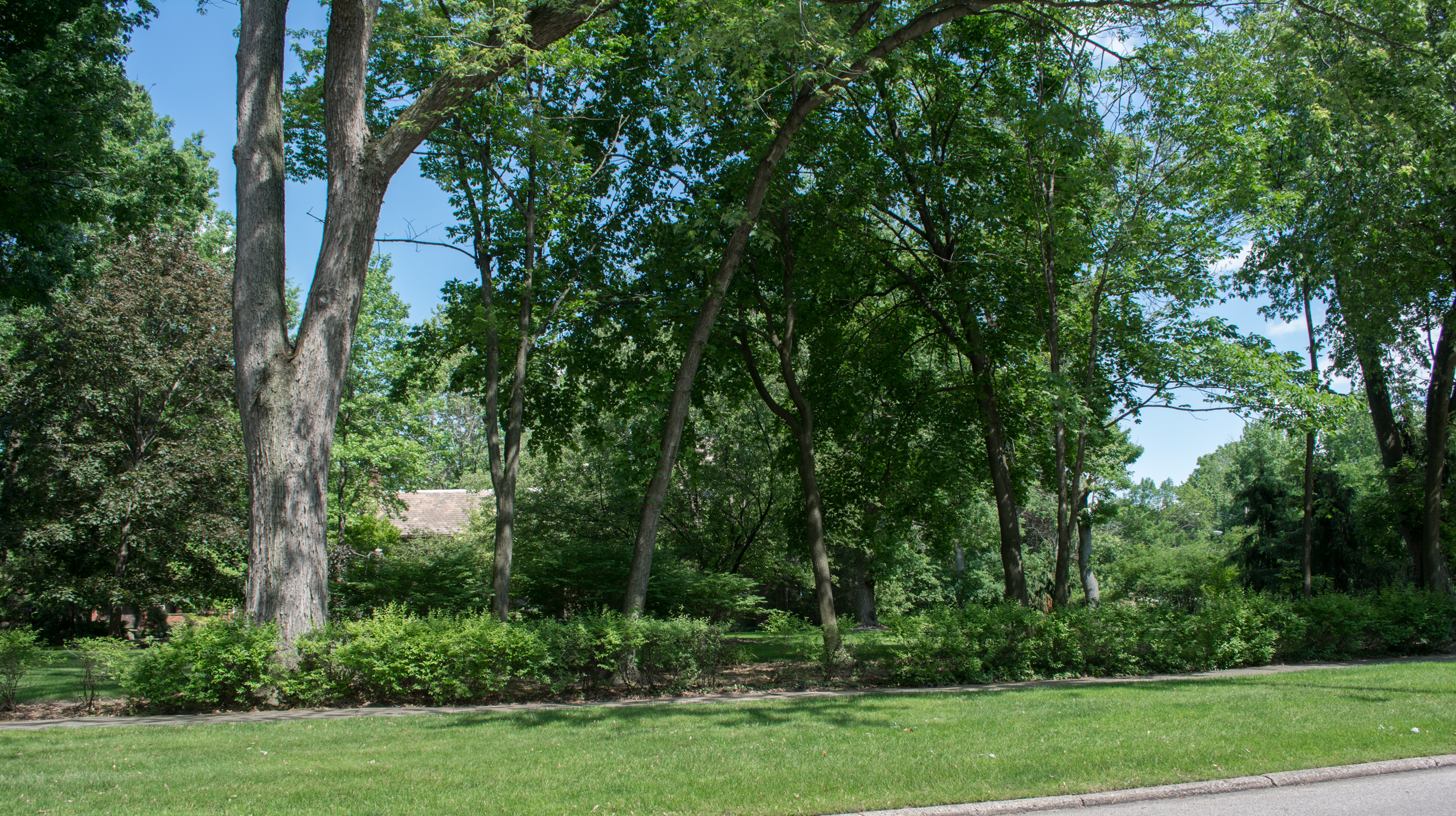 House at 2671 Fairmount Blvd. in Cleveland Heights, Ohio, in the United States. The house and street are located within the Euclid Golf Allotment, a planned community on the National Register of Historic Places.